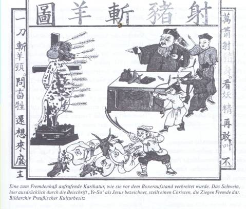 Foreigners shown as pig and goat and being slaughtered by Manchu officials. "Je Su, the Pig, is put to death", propaganda against the foreigners. Chinese woodblock print. Qing dynasty, 19th century CE. From the Church Missionary Society Archives.